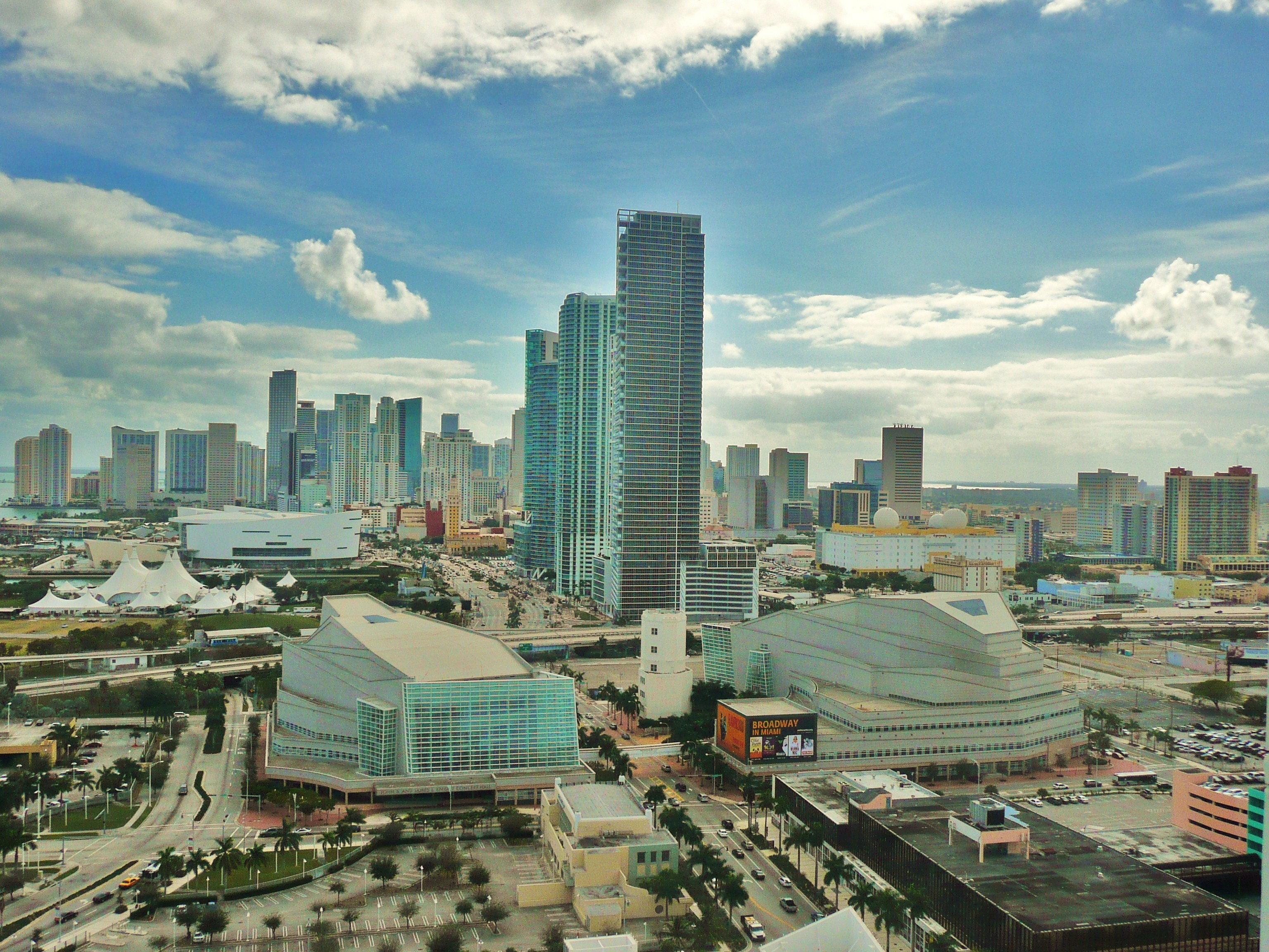 Digital photo taken by Marc Averette. Downtown Miami as seen from the north.